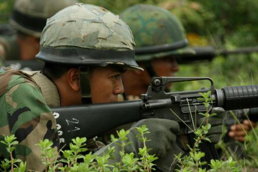 A Royal Thai marine sights in downrange during an amphibious raid exercise as part of exercise Cobra Gold at Hatyao Beach, Thailand, May 11, 2007. Cobra Gold is a combined annual joint training and civic assistance exercise involving the United States, Thailand, Japan, Singapore and Indonesia. (U.S. Marine Corps photo by Cpl. Mark Fayloga) (Released)